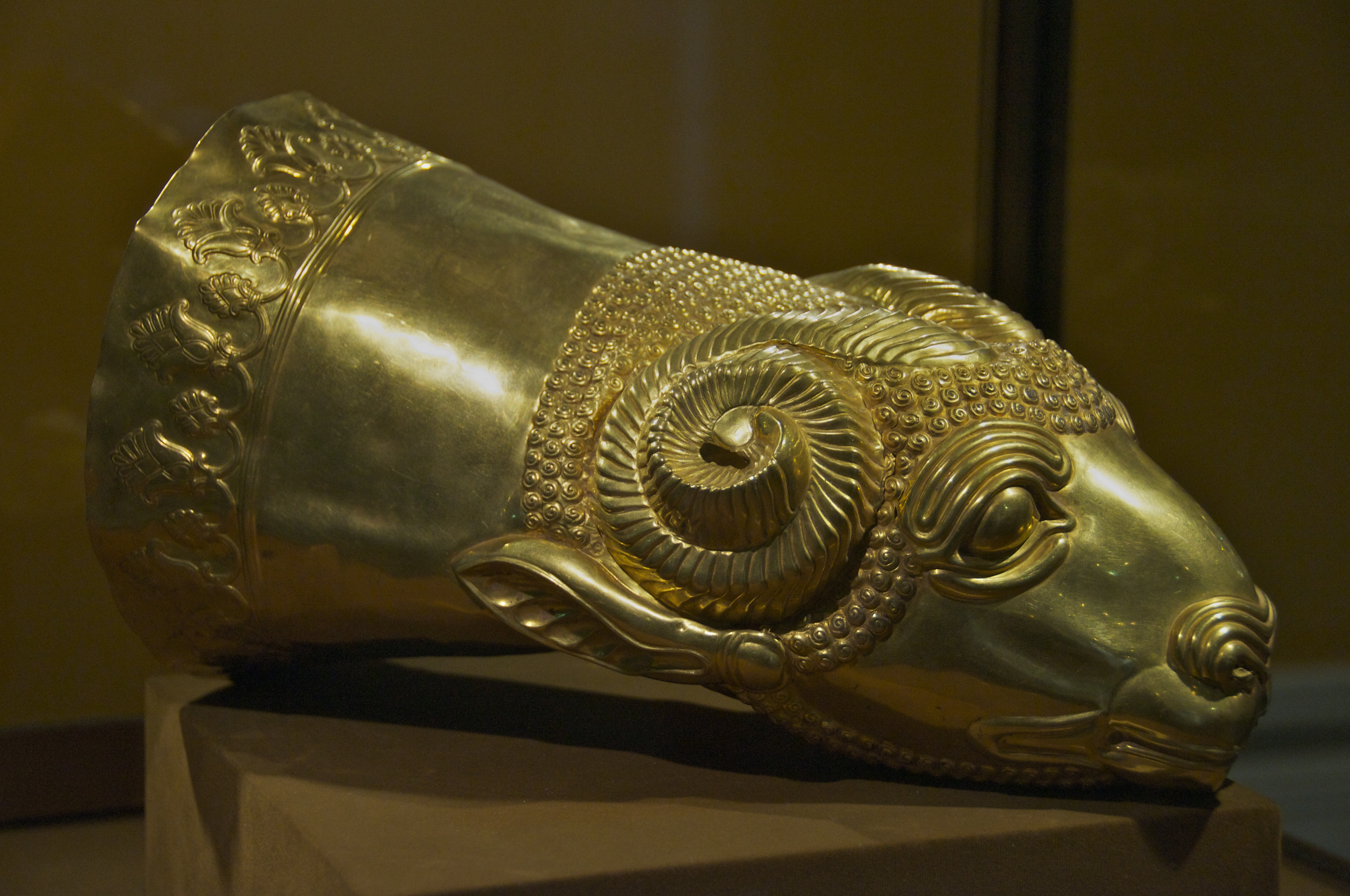 Rhyton in shape of ram's head, gold. From Qaflantuh (near Ziwiye), in western Iran. Median, late 7th - early 6th century, B.C. In the collection of the Reza Abbasi Museum, Tehran.